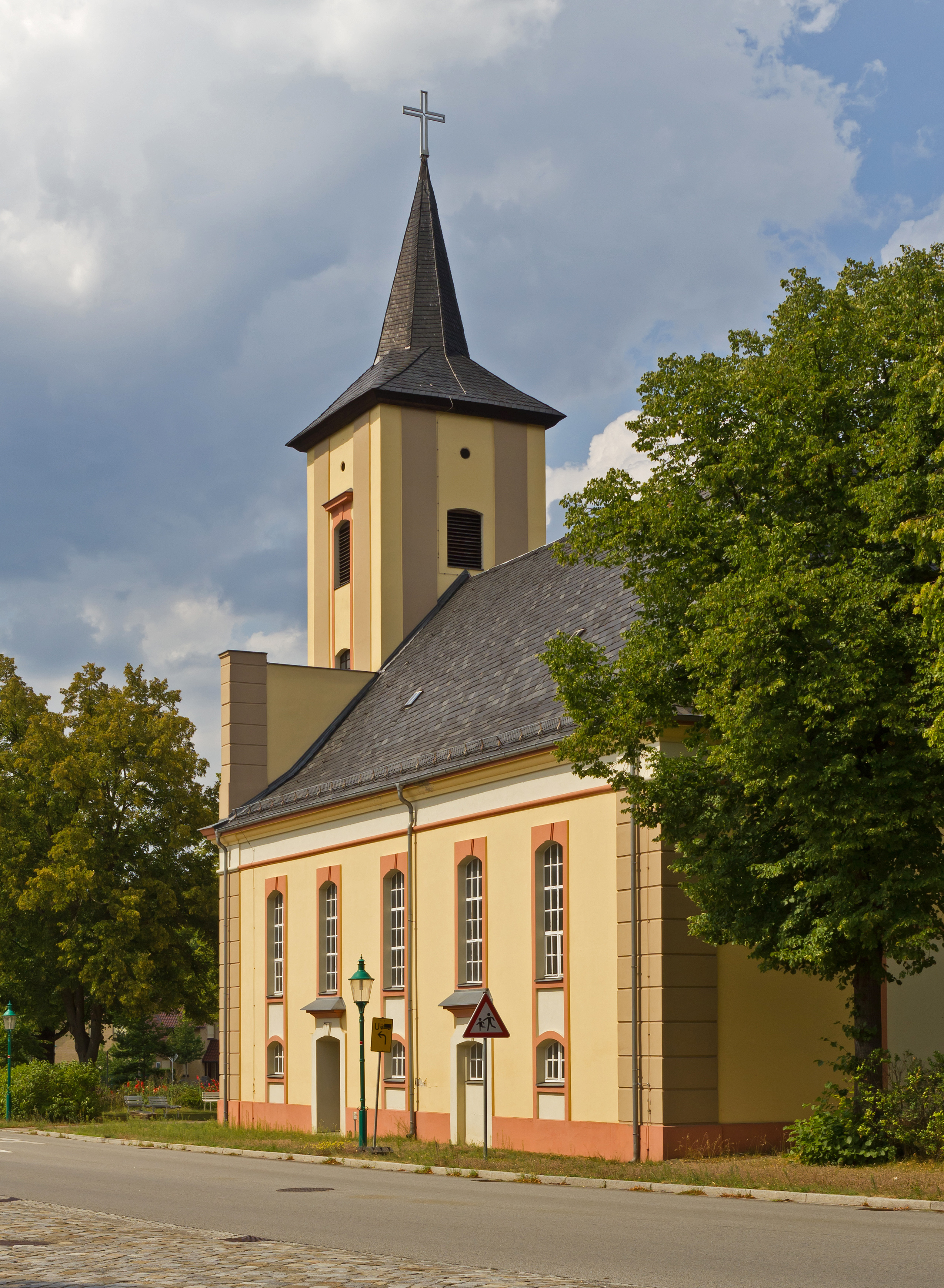 Village church in Märkisch Buchholz, Brandenburg, Germany